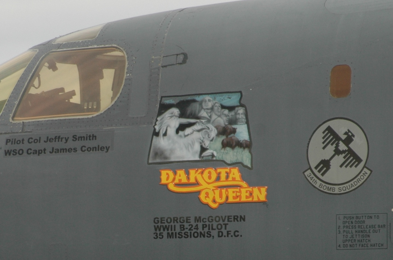 The Dakota Queen was a B-24 Liberator, which saw action in World War II. It was flown by future U.S. Senator and Democratic Party presidential nominee George McGovern, who flew 35 missions over Nazi-occupied Europe from an airbase in Italy. The B-24 was put into service because the Army Air Corps needed a bomber with greater range, higher ceiling, and faster speed than the B-17 Flying Fortress. This nose art is assigned to the B-1 piloted by the 28th Bomb Wing commander. (U.S. Air Force photo/Airman 1st Class Kimberly Moore Limrick)